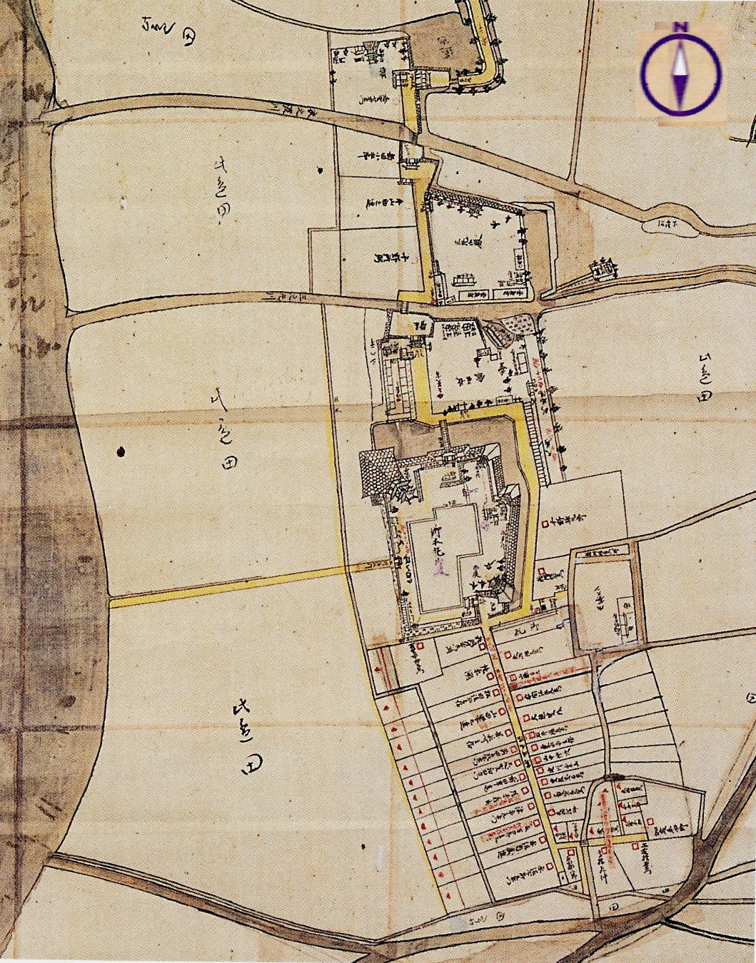 Map of Takashima castle and surroundings